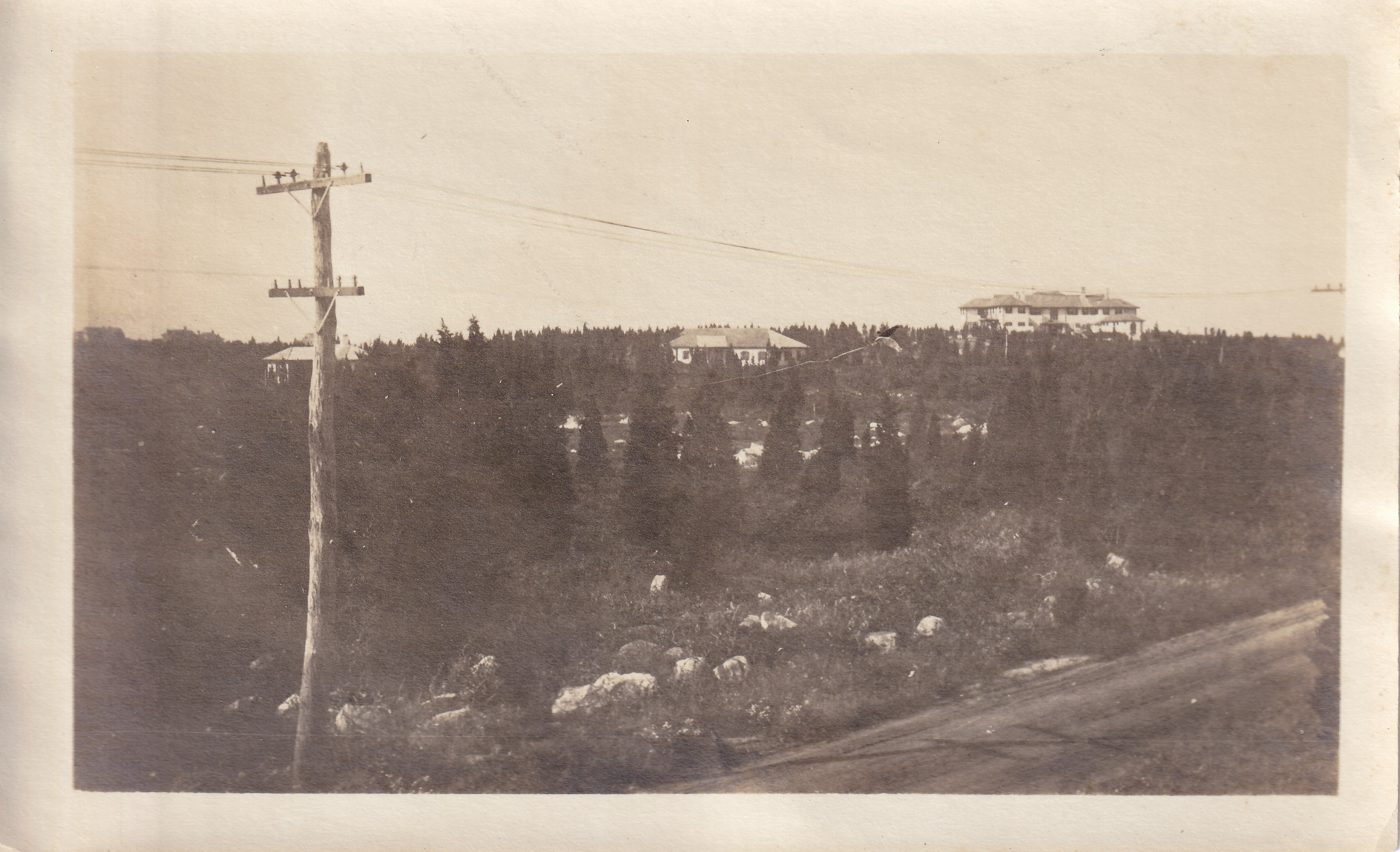 Photo taken in the 1930s of the Jacob Sloat Fassett Estate in West Falmouth, Massachusetts, called "Greycourt." Photo taken from the corner of Wright Street and Little Island Road.